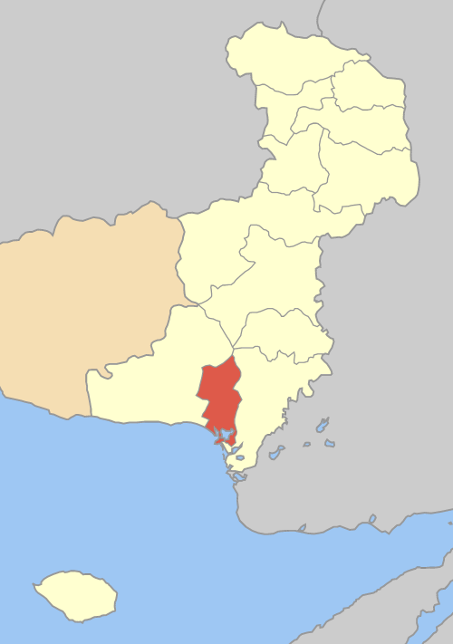 Locator map of Traianoupoli municipality (Δήμος Τραϊανούπολης) in Evros prefecture (Νομός Έβρου) in Greece.